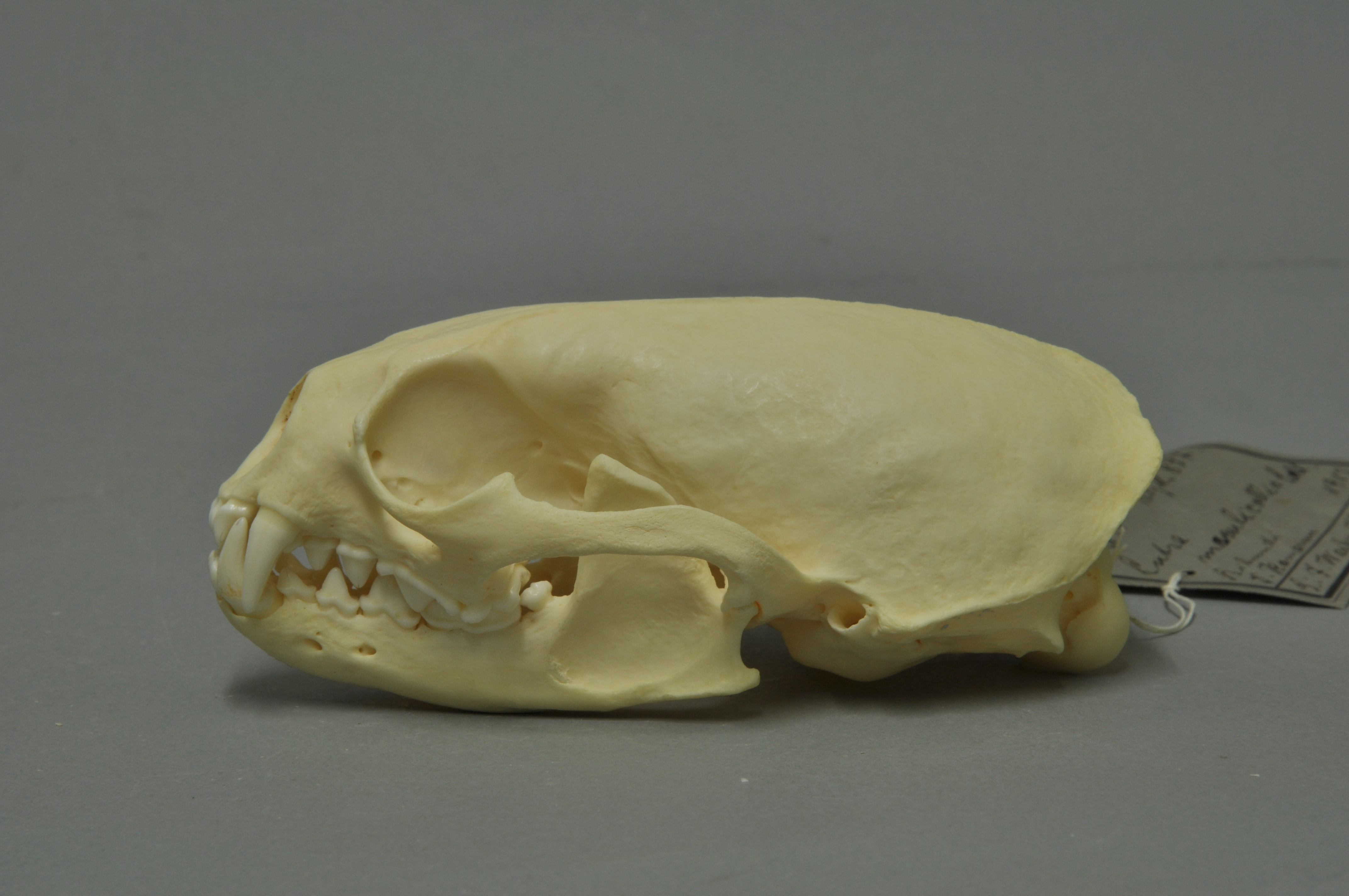 Spotted-necked otter Lutra maculicollis , skull, Coll. Museum Wiesbaden